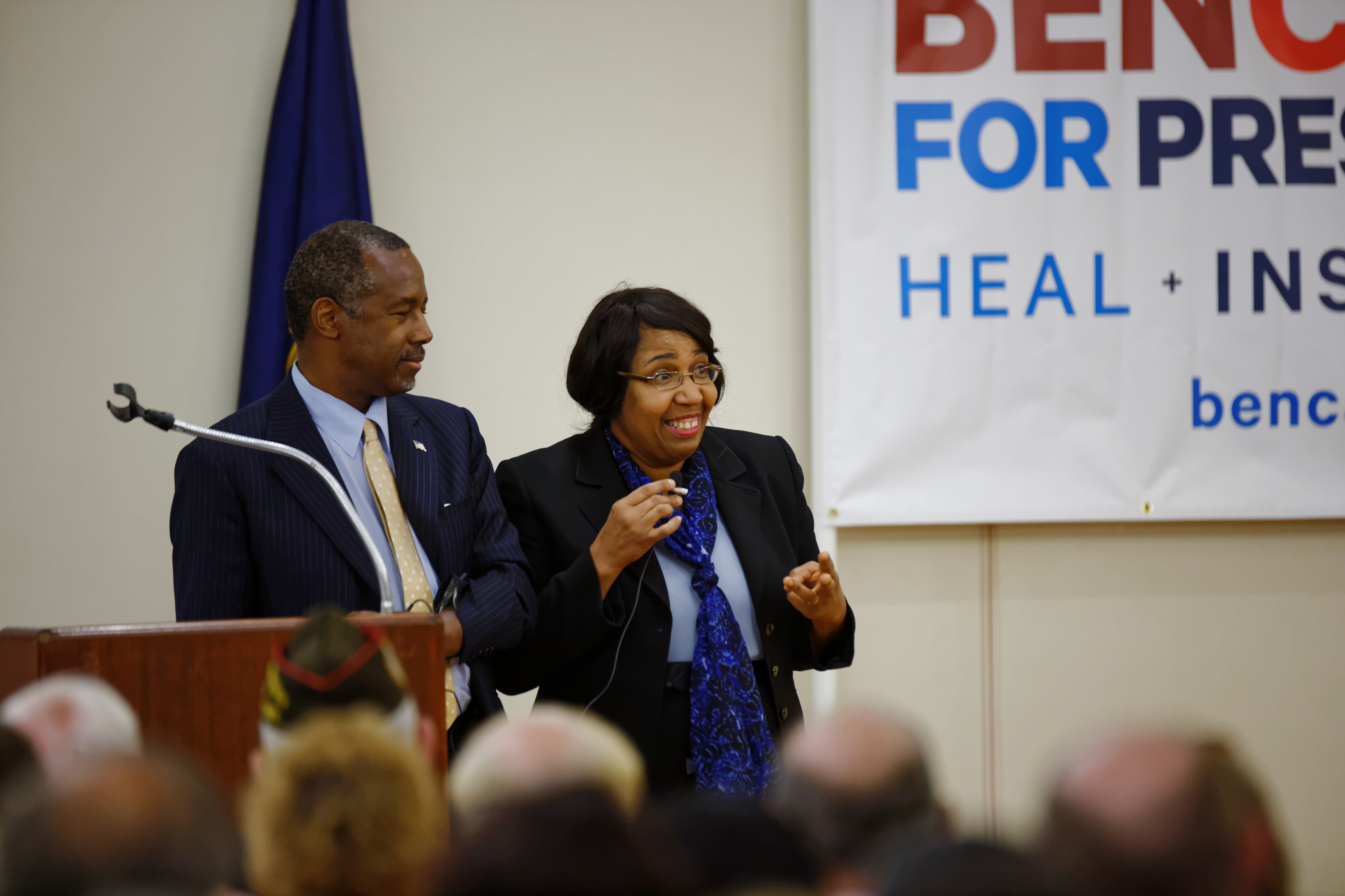 Benjamin Solomon "Ben" Carson, Sr. (born September 18, 1951) is an American author, political pundit, and retired Johns Hopkins neurosurgeon. On May 4, 2015, Carson announced he was running for the Republican nomination in the 2016 Presidential election at a rally in Detroit, his hometown. Carson was the first surgeon to successfully separate conjoined twins joined at the head. In 2008, he was awarded the Presidential Medal of Freedom by President George W. Bush. After delivering a widely publicized speech at the 2013 National Prayer Breakfast, he became a popular conservative figure in political media for his views on social and political issues. Ben Carson Visits New Hampshire on Thursday, August 13, 2015 Thursday, August 13, 2015 11:40 a.m. - 12:20 p.m. EDT Walk Through Puritan Backroom Restaurant 245 Hooksett Road Manchester, NH 1:10 p.m. - 2:35 p.m. EDT Hooksett Town Hall Meeting American Legion Post 37 5 Riverside Drive Hooksett, NH 5:30 p.m. - 6 p.m. EDT Londonderry Old Home Day 14th Annual Kidz Night Londonderry Town Common Londonderry, NH 7:15 p.m. - 8:45 p.m. EDT Windham Town Hall Meeting Castleton Banquet and Conference Center 92 Indian Rock Road Windham, NH